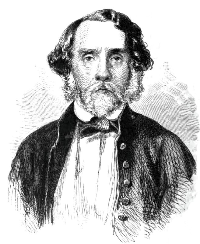 Image of José Trinidad Cabañas 1857